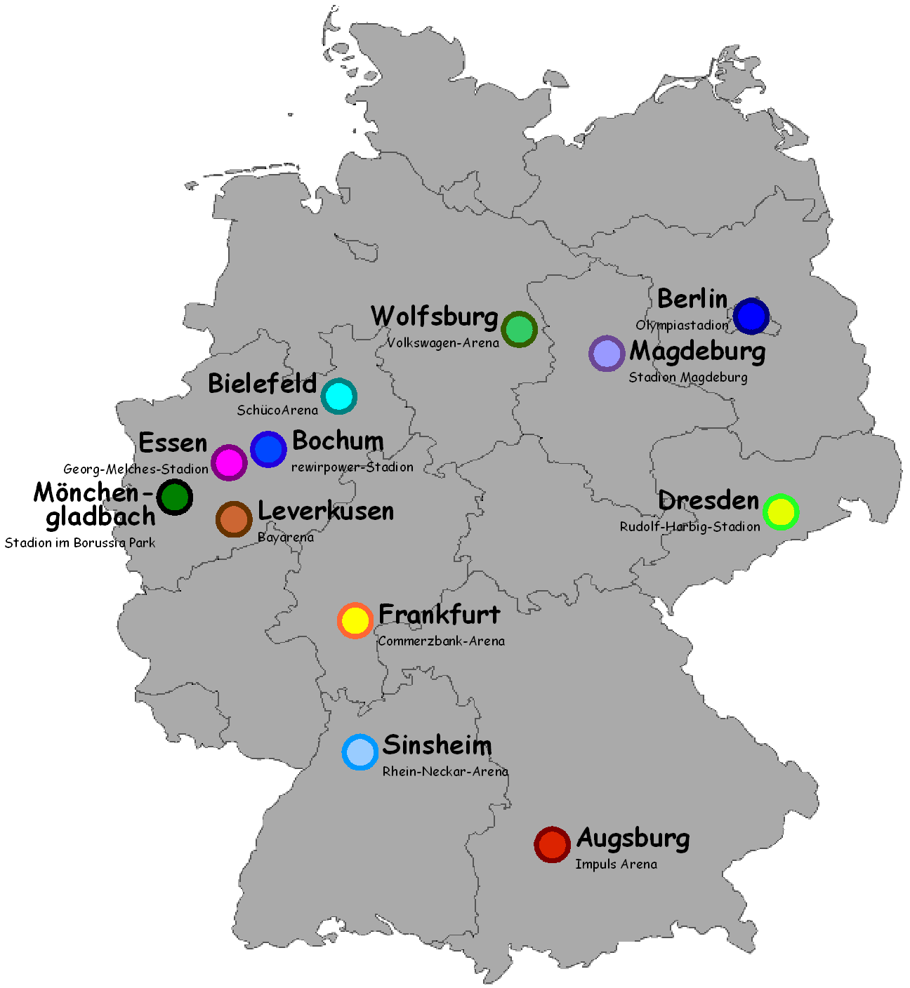 Planned host cities of Germany's candidature for the 2011 Women's Soccer World Cup.